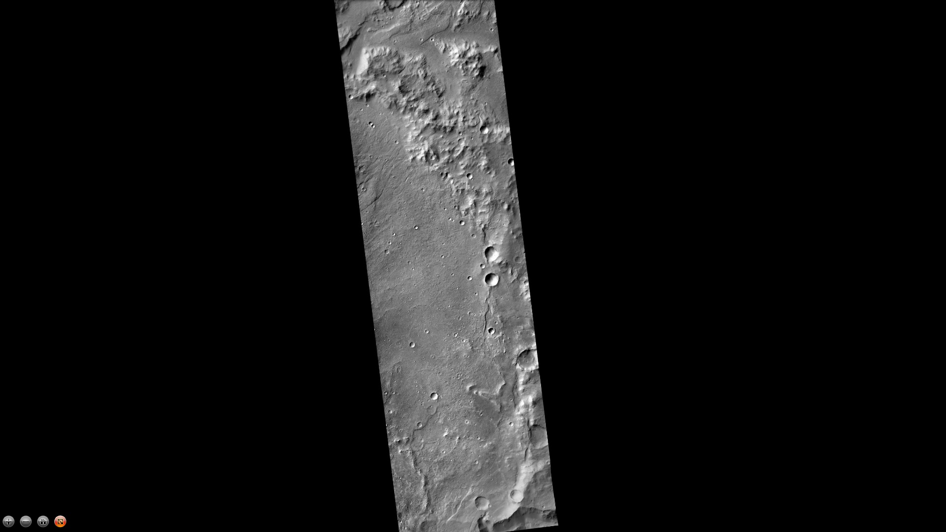 Davinci Crater, as seen by ctx